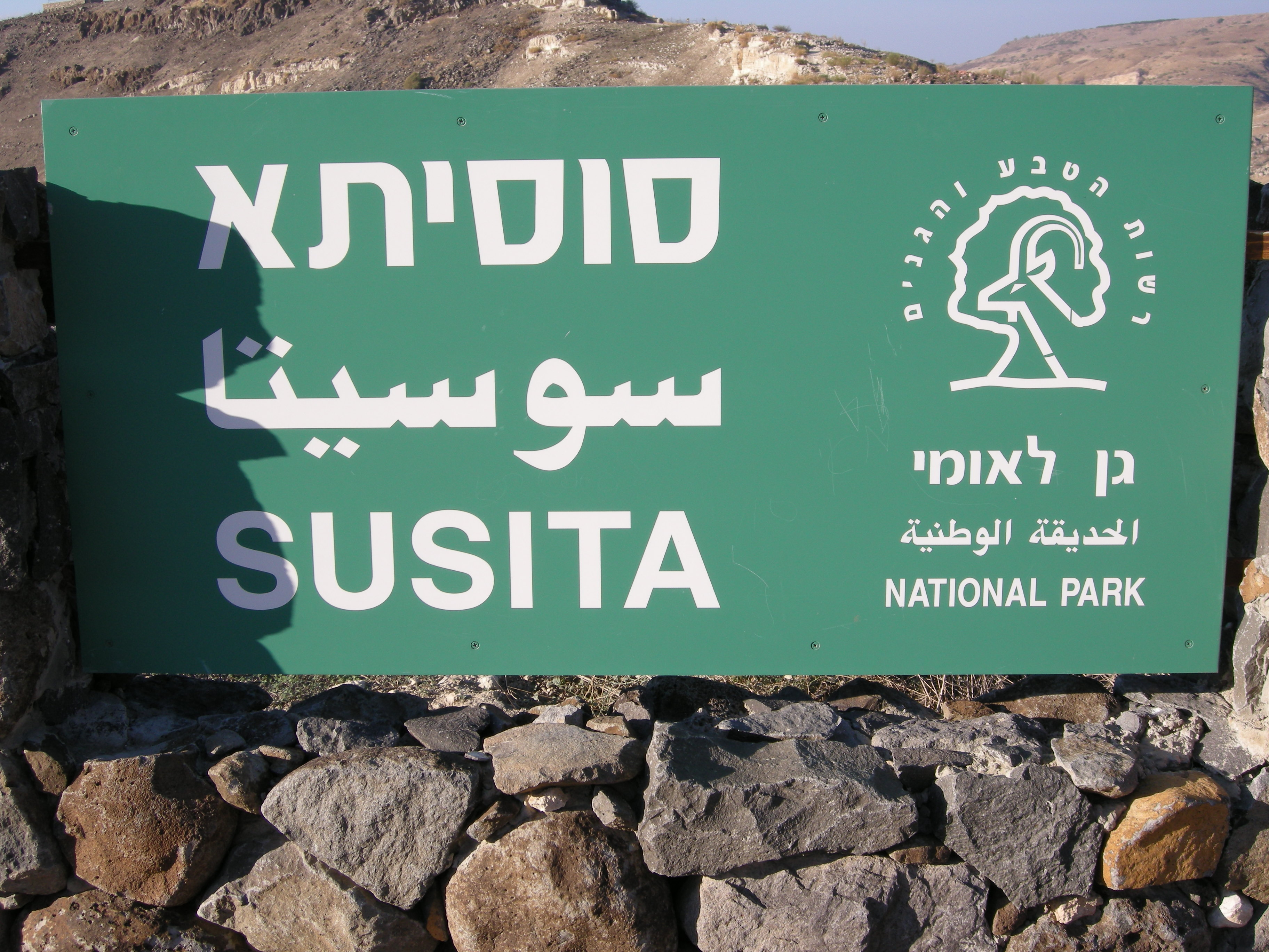 Hippos